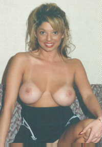 Raylin